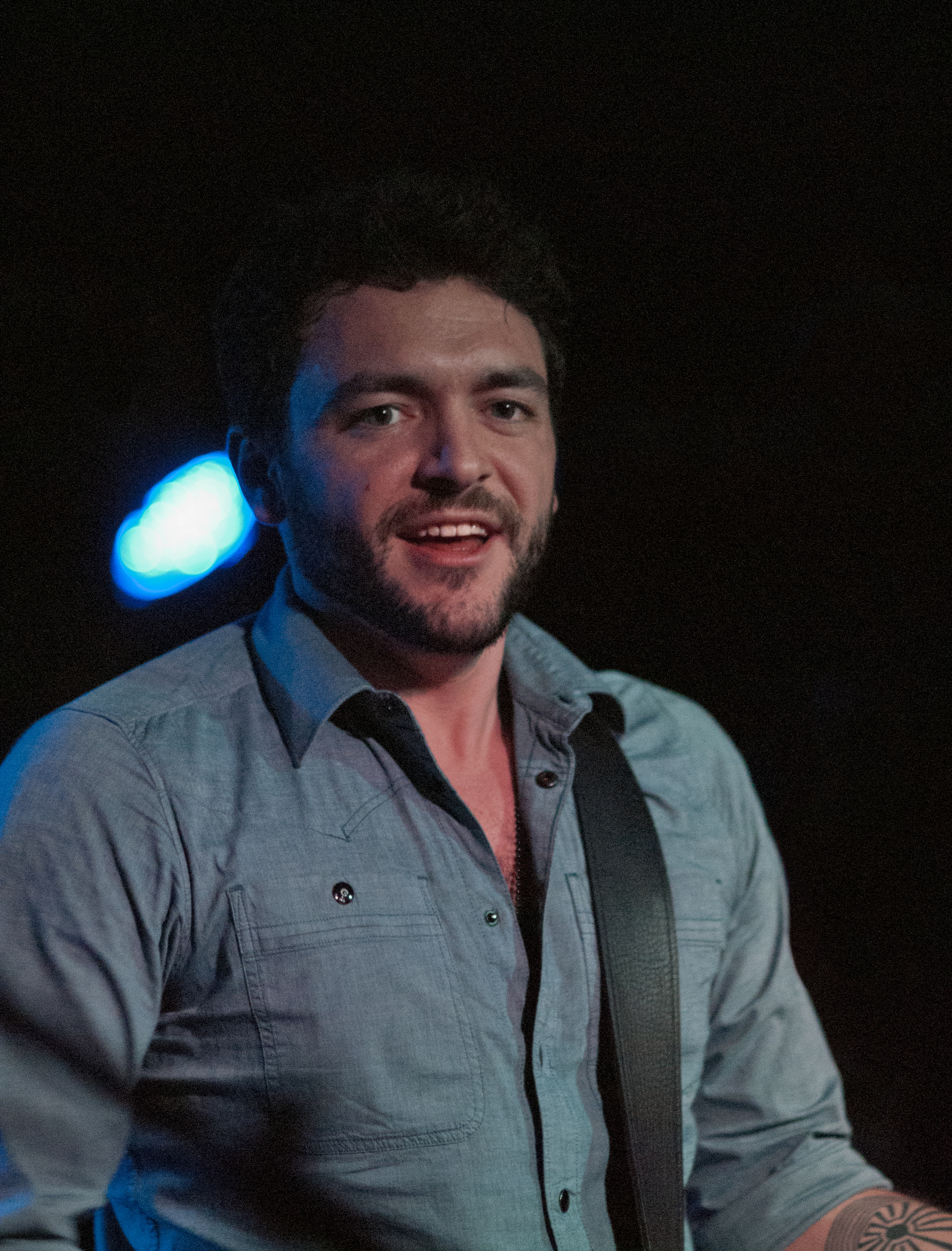 Michael Pearsall, the frontman for the American rock band Honor By August. This picture was taken during a show in New York City at the Mercury Lounge on 2012-03-16, when Honor By August was co-headlining with Todd Carey.